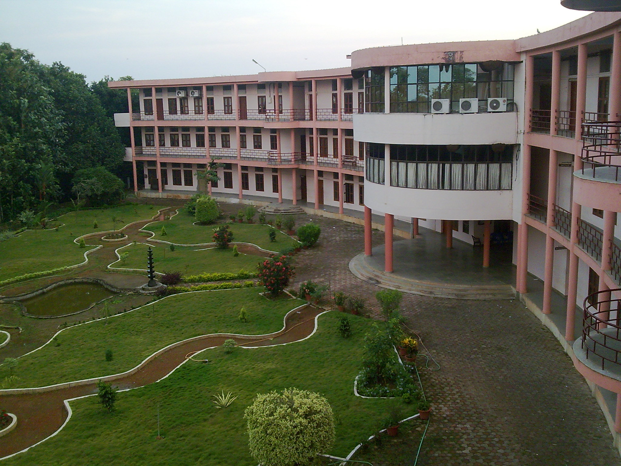 Sree Buddha College of Enggineering, Nooranad in Allappuzha district